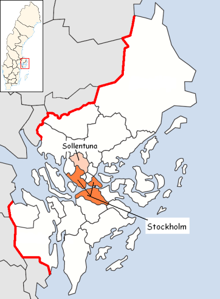 Sollentuna Municipality in Stockholm County Designed by me. Mere outlines are a PD source from